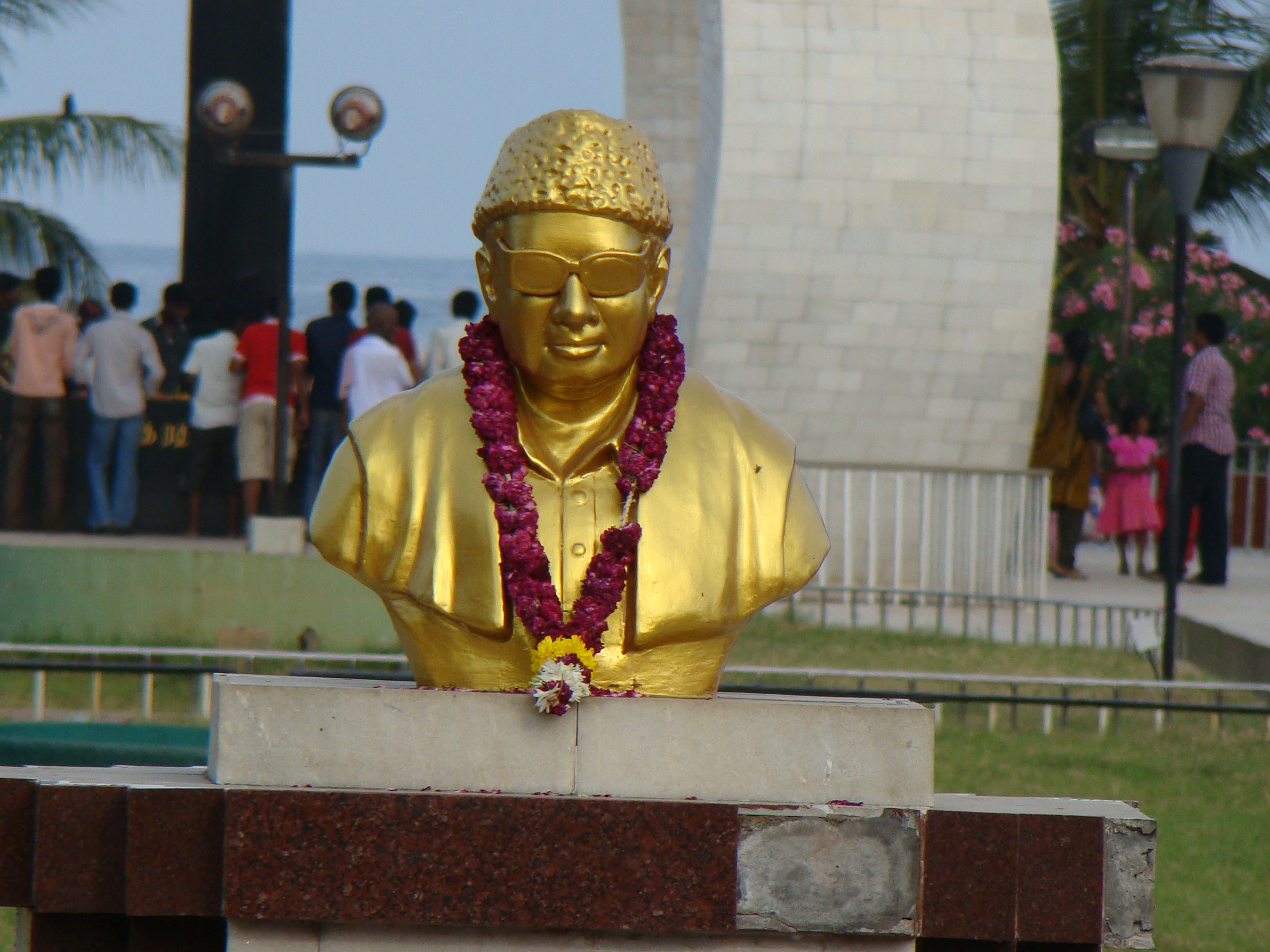 The Statue at the entrance of MGR Memorial located at Marina Beach, Chennai.